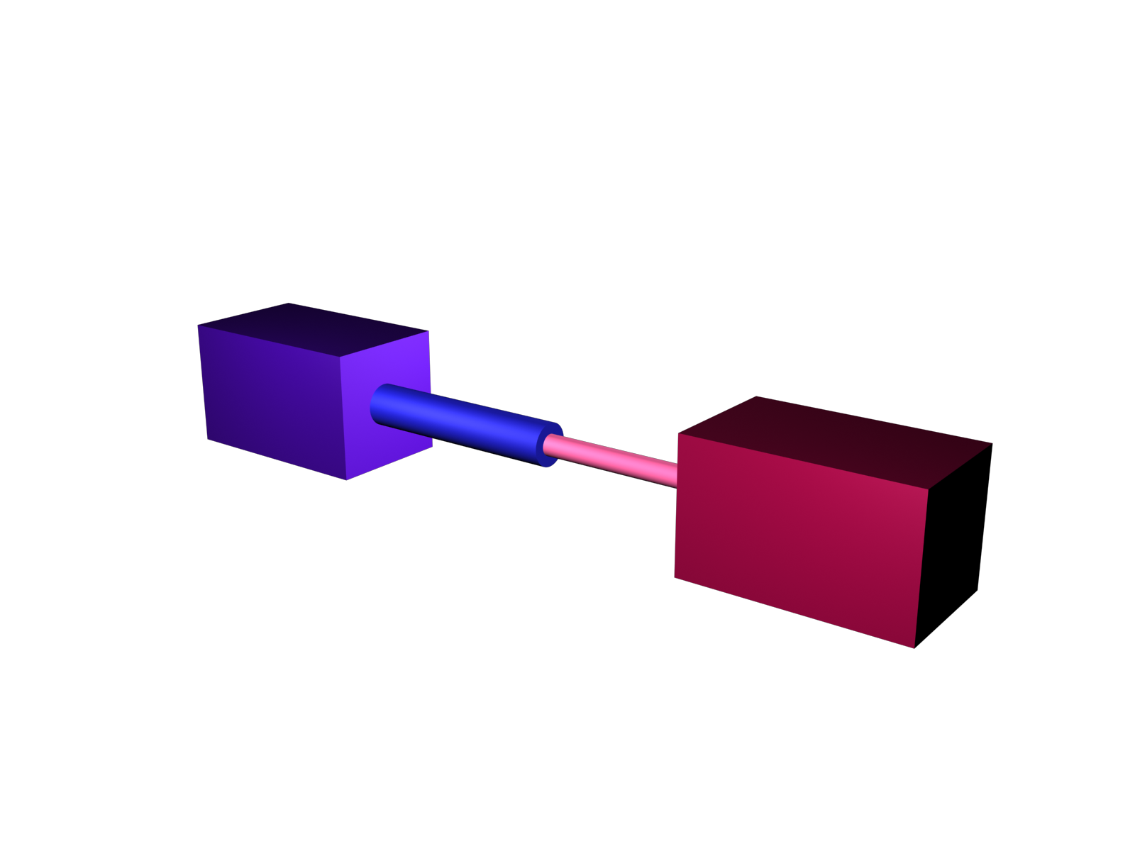 Slider joint is a joint and constraint among two physical bodies. Slider joint is one of three basic physical joints. This joint allow physical bodies to move along one of axis and these bodies are equally oriented.